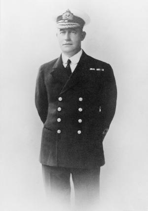 A portrait of Australian Admiral George Francis Hyde.